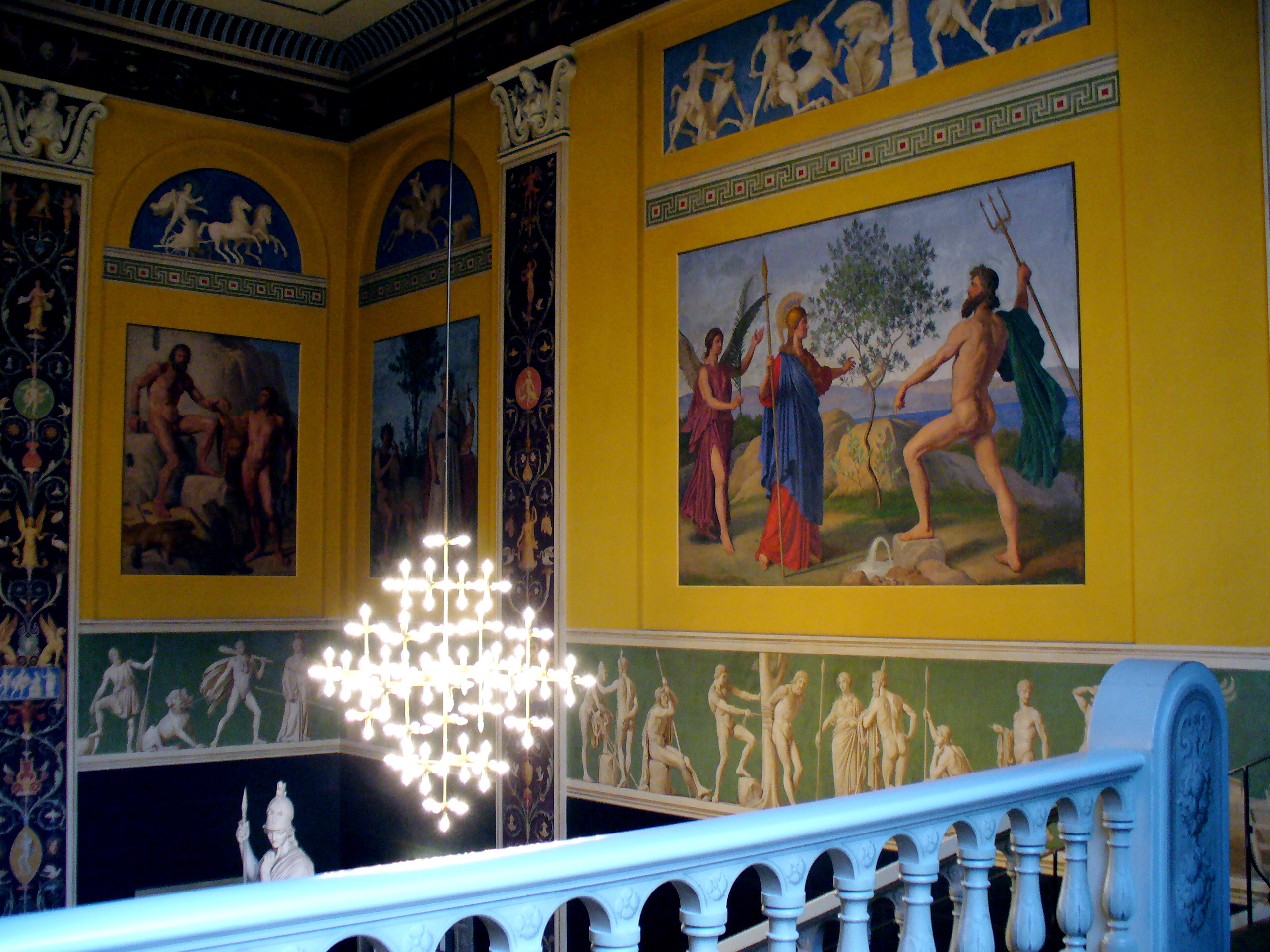 The vestibule of the main building of University of Copenhagen at Vor Frue Plads in Copenhagen, Denmark, showing (on the right half of the photo) the central fresco Athena Followed by Nike Disputing with Poseidon for Possession of Attica by Constantin Hansen